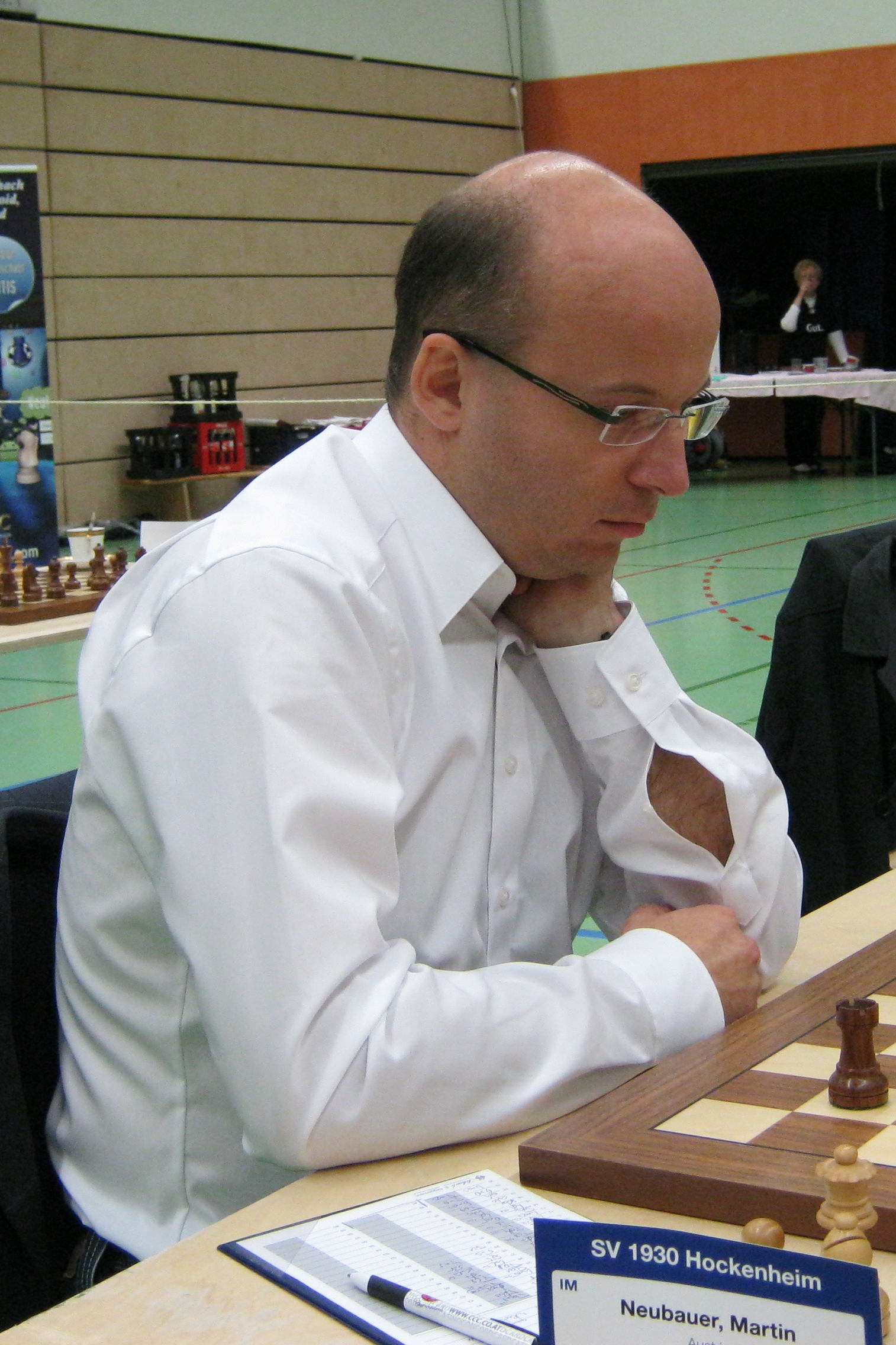 Martin Neubauer, chess player from Austria